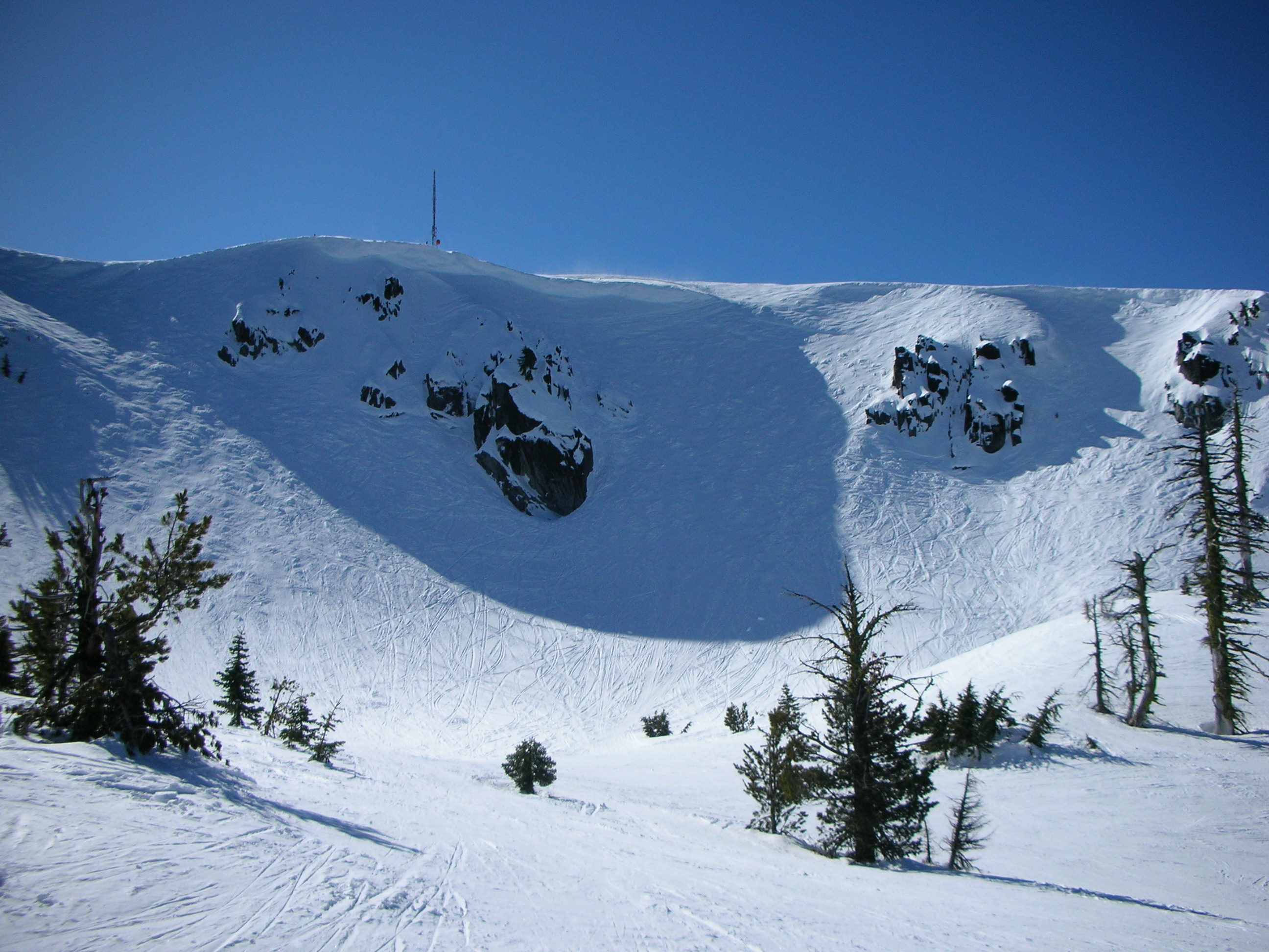 Mount Ashland's glacial cirque "The Bowl," as taken by Devin Soltis of Medford, Oregon